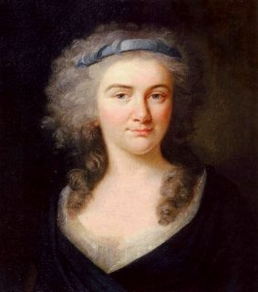 Johann Friedrich August Tischbein - Charlotte von Kalb - painting is owned by the German Literature Archive in Marbach